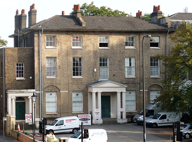 173 Clapham Road Amid a cluster of Georgian survivals on the main road, a spacious early C19th house of stock brick with a modern "quasi-Doric" porch (English Heritage). Grade II listed. Originally this was one of a pair of semi-detached houses - the two-storey bay to the left is all that remains of its erstwhile partner. The house is currently occupied by a motor accessories company.